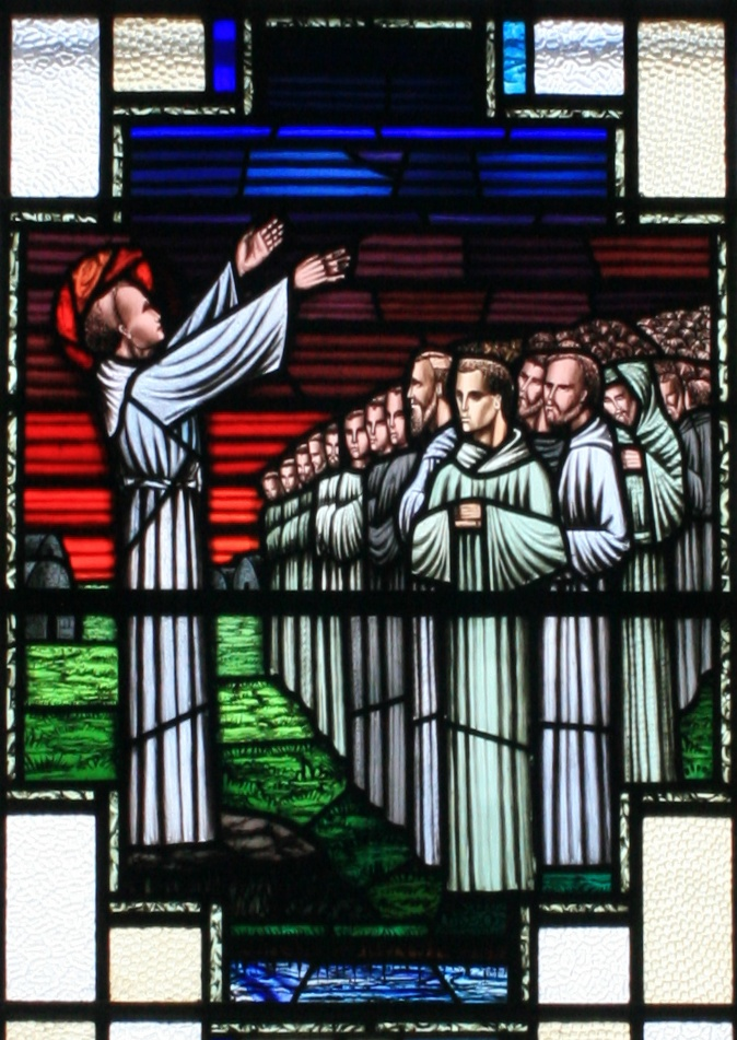 Clonard, County Meath, Ireland Detail of the sixth stained glass window in a series depicting the life of St. Finian in the Church of St. Finian at Clonard. The windows were created by Hogan in 1957. The inscription reads: Saint Finian preaches to his monks at Clonard. This image has been cropped from this image.